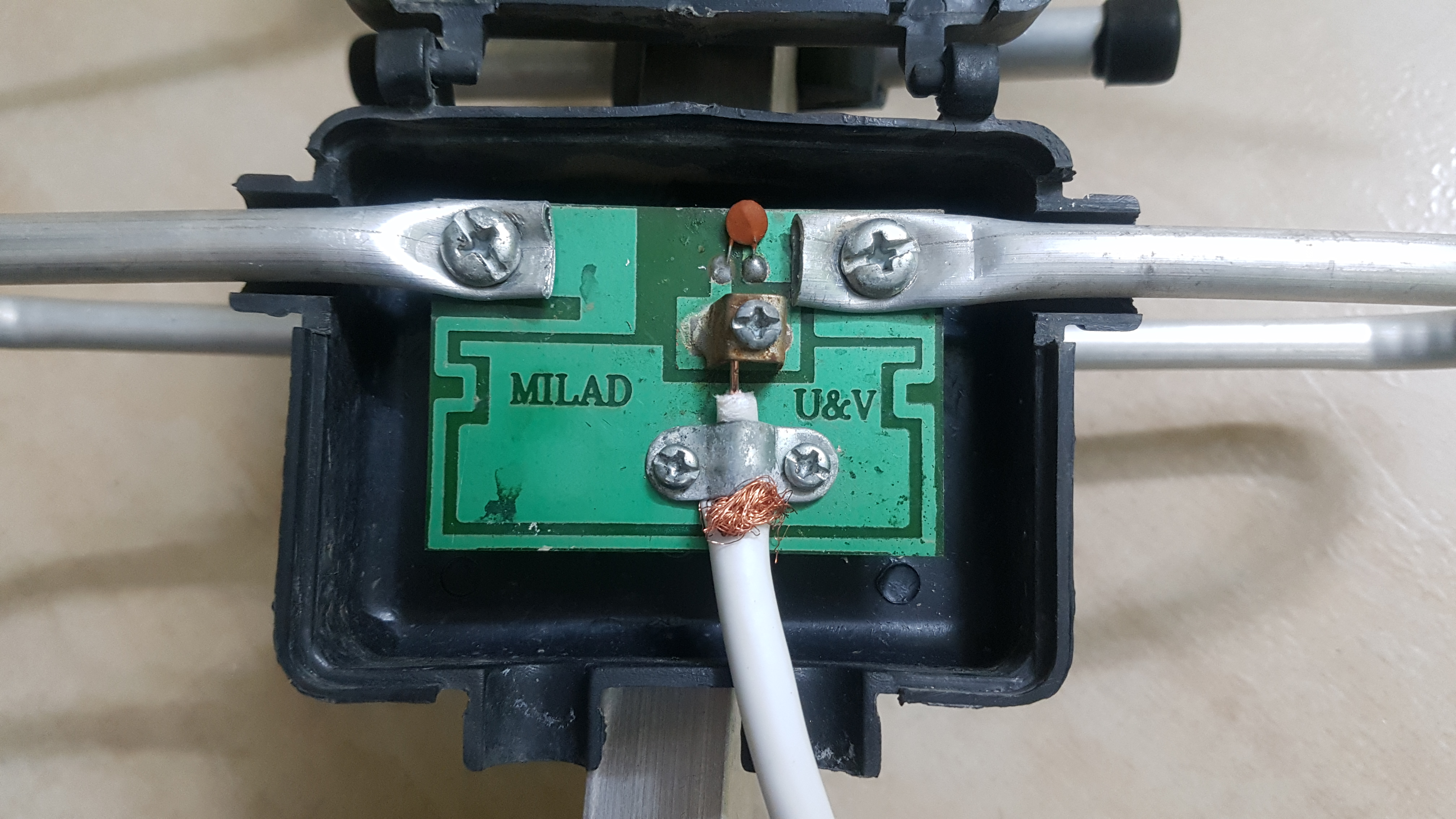 Antenna circuit